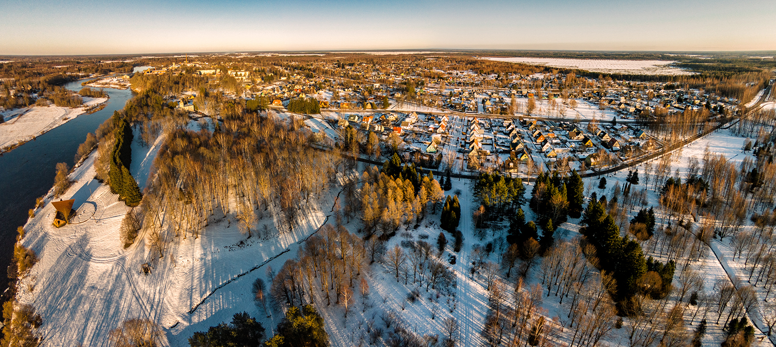 Sindi. Estonia 2016.